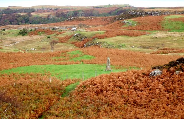 Standing Stone on Ulva According to the 1:25000 map this standing stone is "fallen" - I can only assume that someone has righted it since. Photo taken from the track to Ormaig. Isle of Ulva, Inner Hebrides.